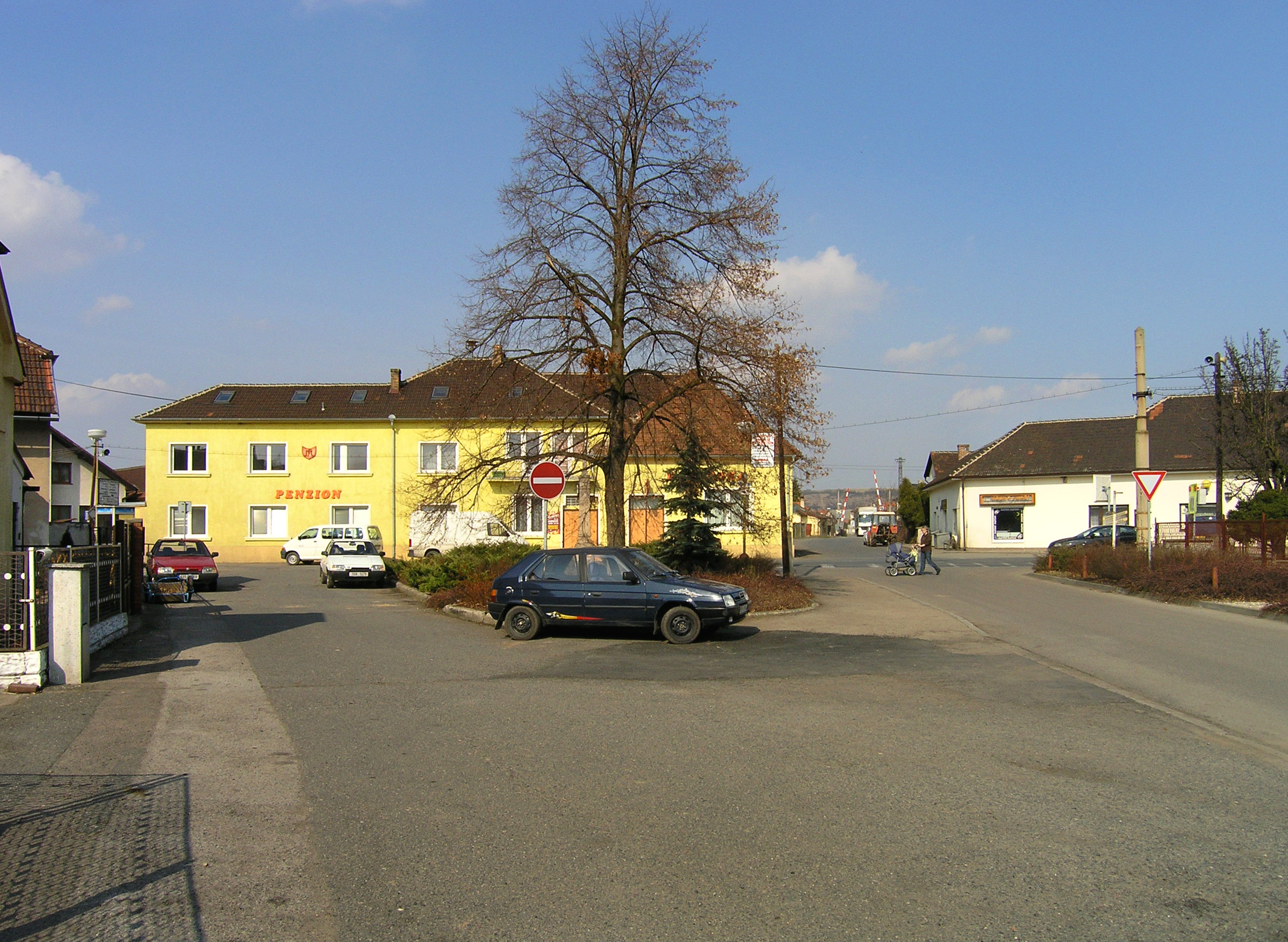 Common in Ovčáry village, Czech Republic